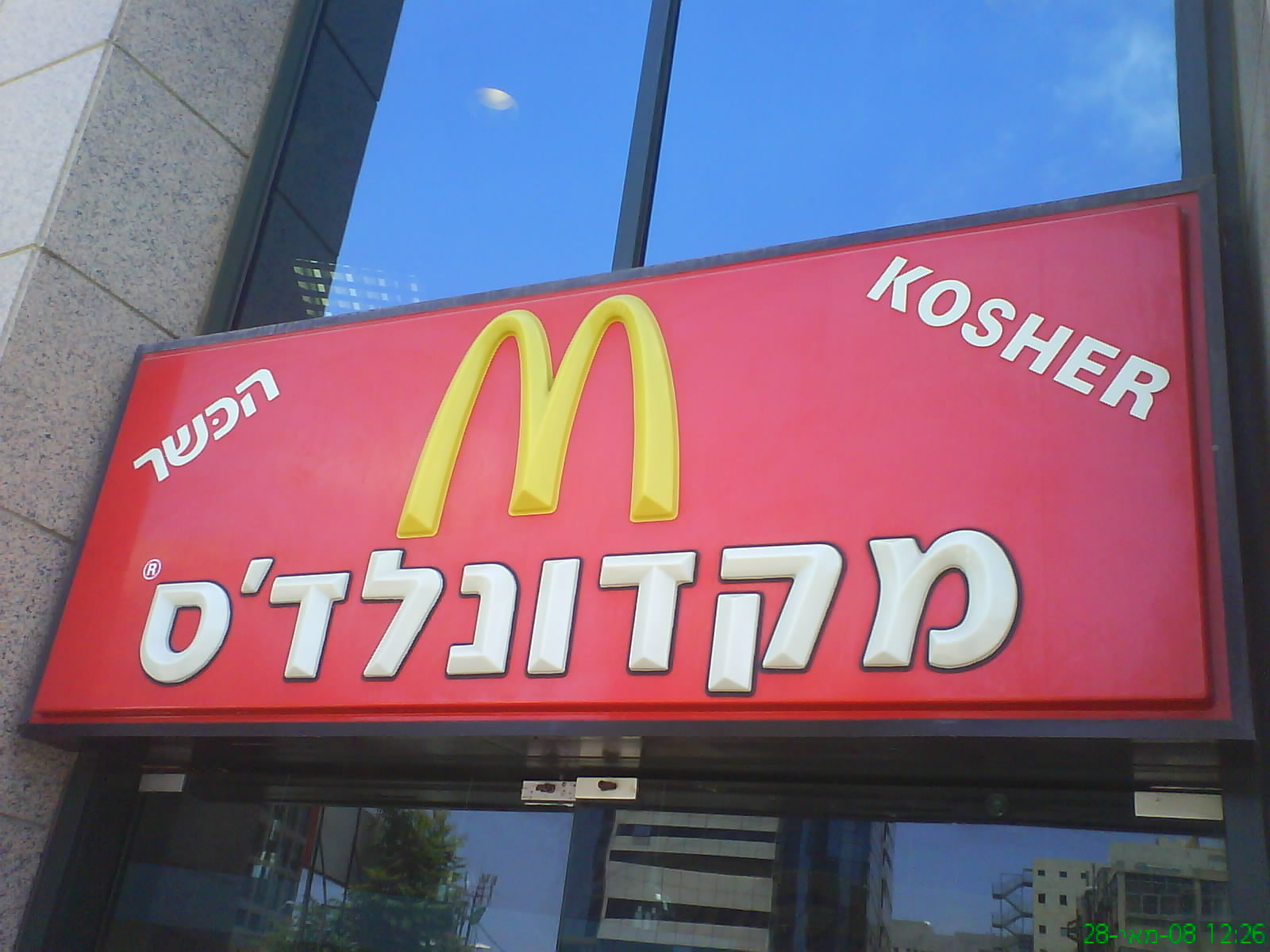 Kosher McDonald's restaurant in Ramat-Gan